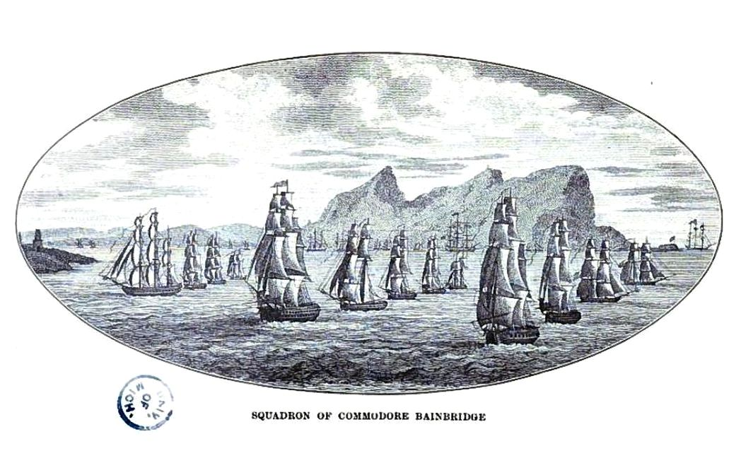 Engraving depicting Bainbridge Squadron off Algiers, taken from book dated 1905.